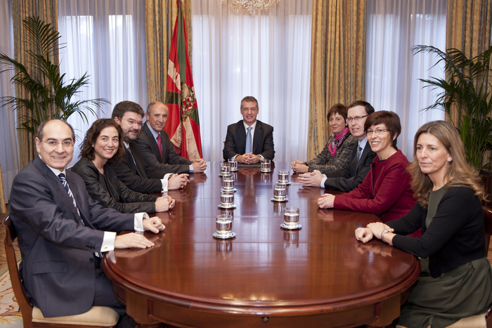 2012 Basque Goverment's councilors. On the left, from front to back: Jon Darpon, Cristina Uriarte, Juan Mari Aburto eta Josu Erkoreka. On the right, from front to back: Ana Oregi, Estefania Beltran de Heredia, Ricardo Gatzagaetxebarria eta Arantza Tapia. In the center of all, the lehendakari Iñigo Urkullu.